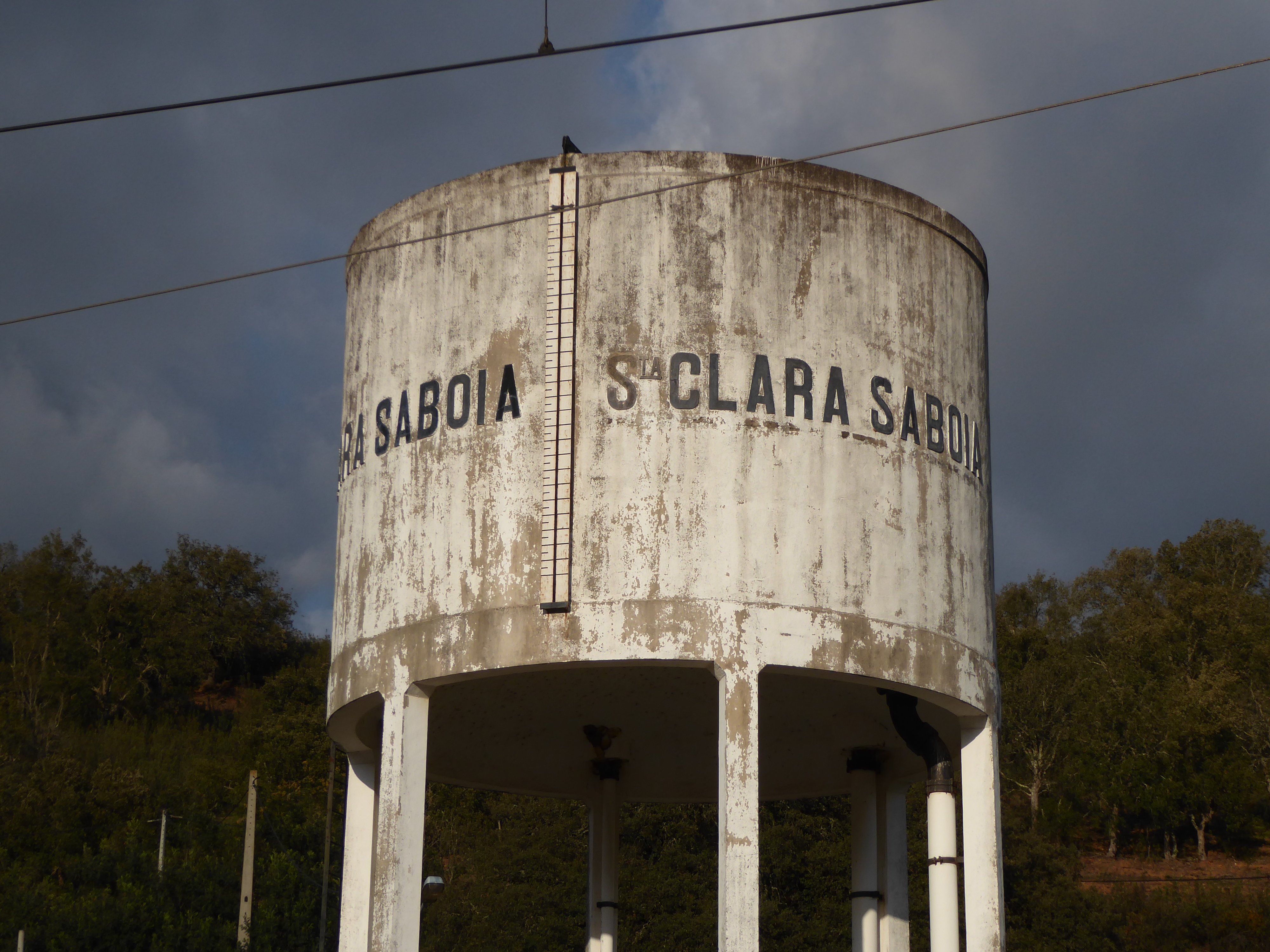 Santa Clara-Saboia train station, Portugal